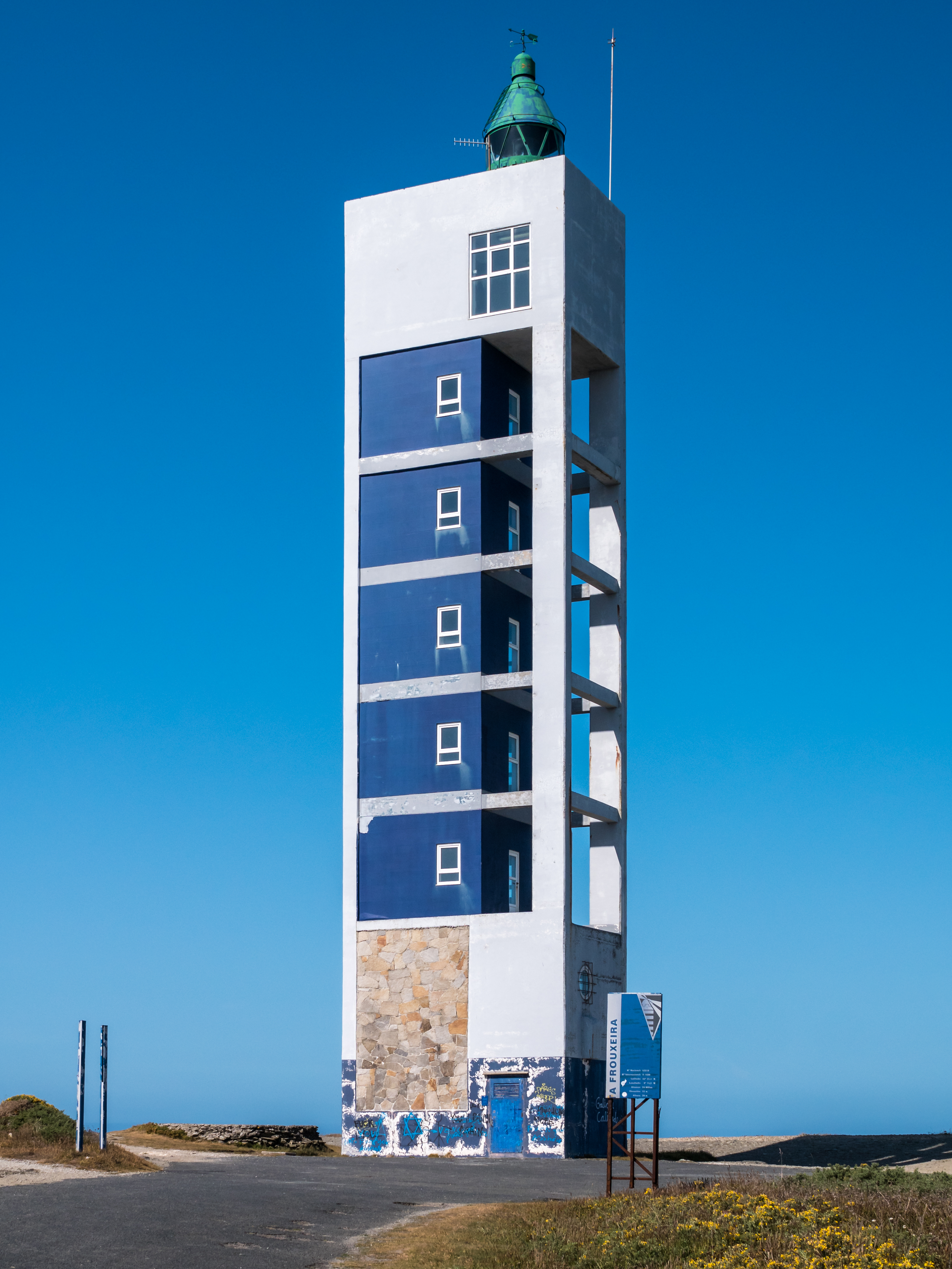 Frouxeira Lighthouse. Valdoviño, Galicia, Spain